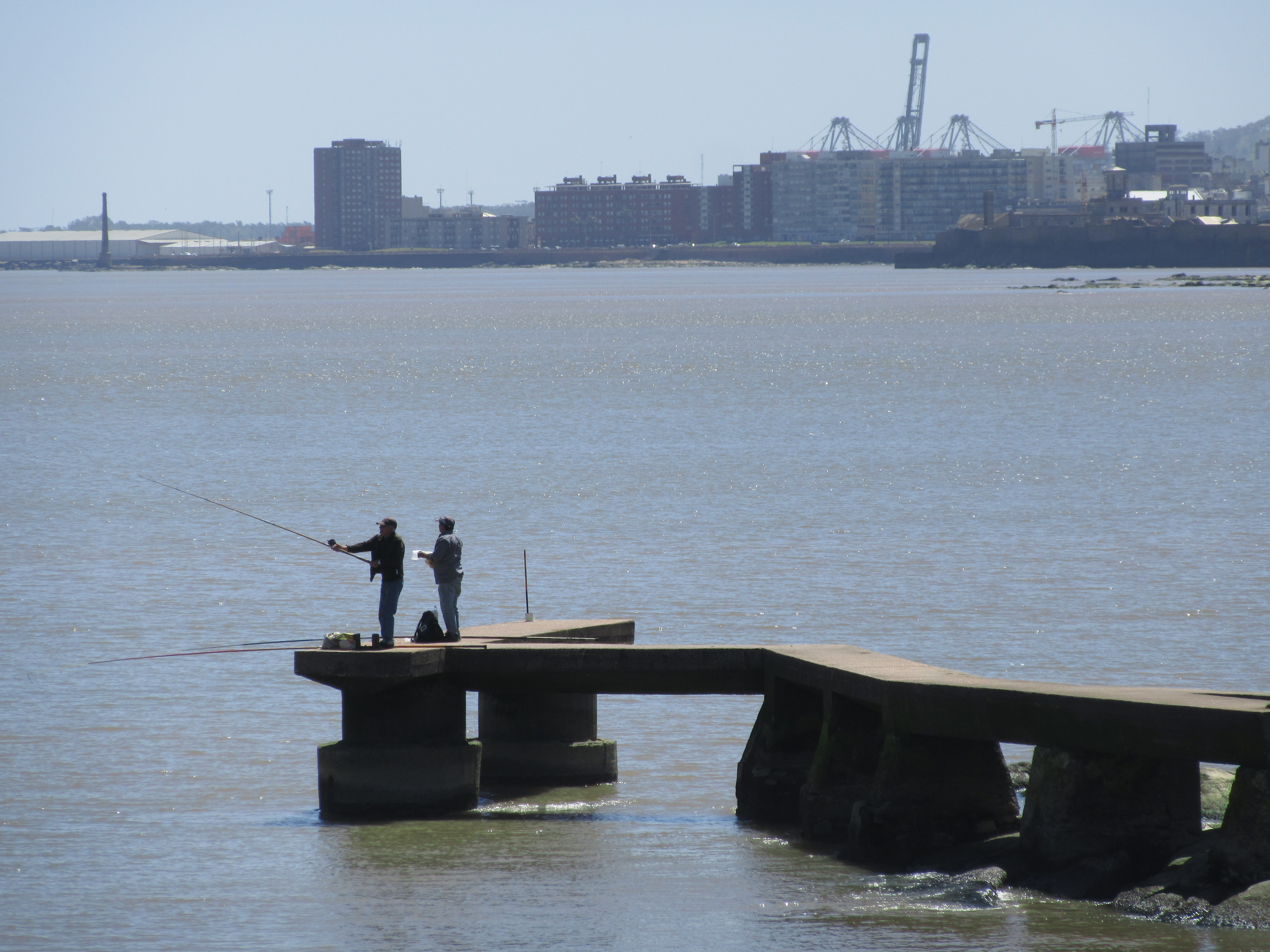 Montevideo